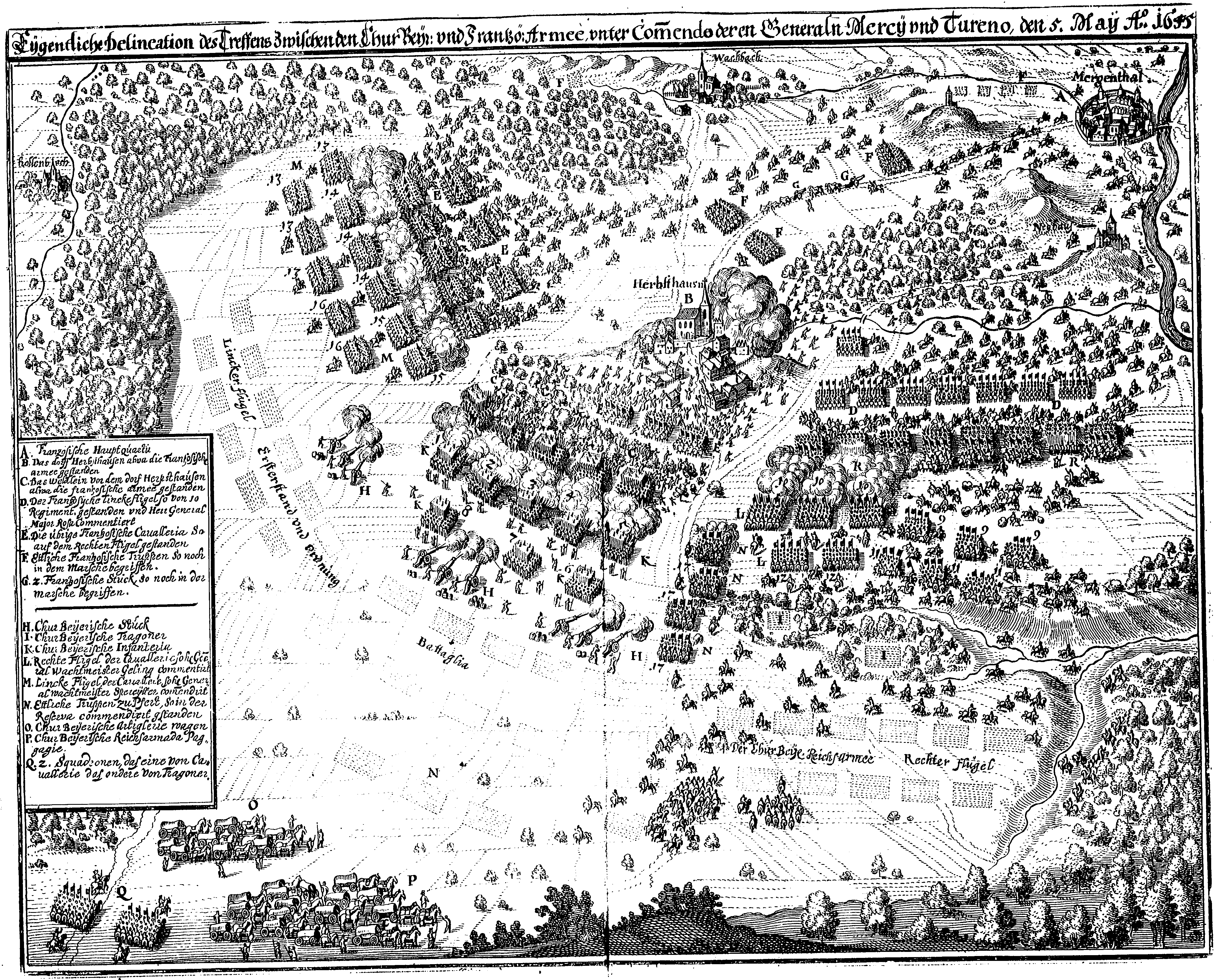 Battle of Mergentheim (“Mergenthal” in the drawing) or Battle of Herbsthausen, 1645.